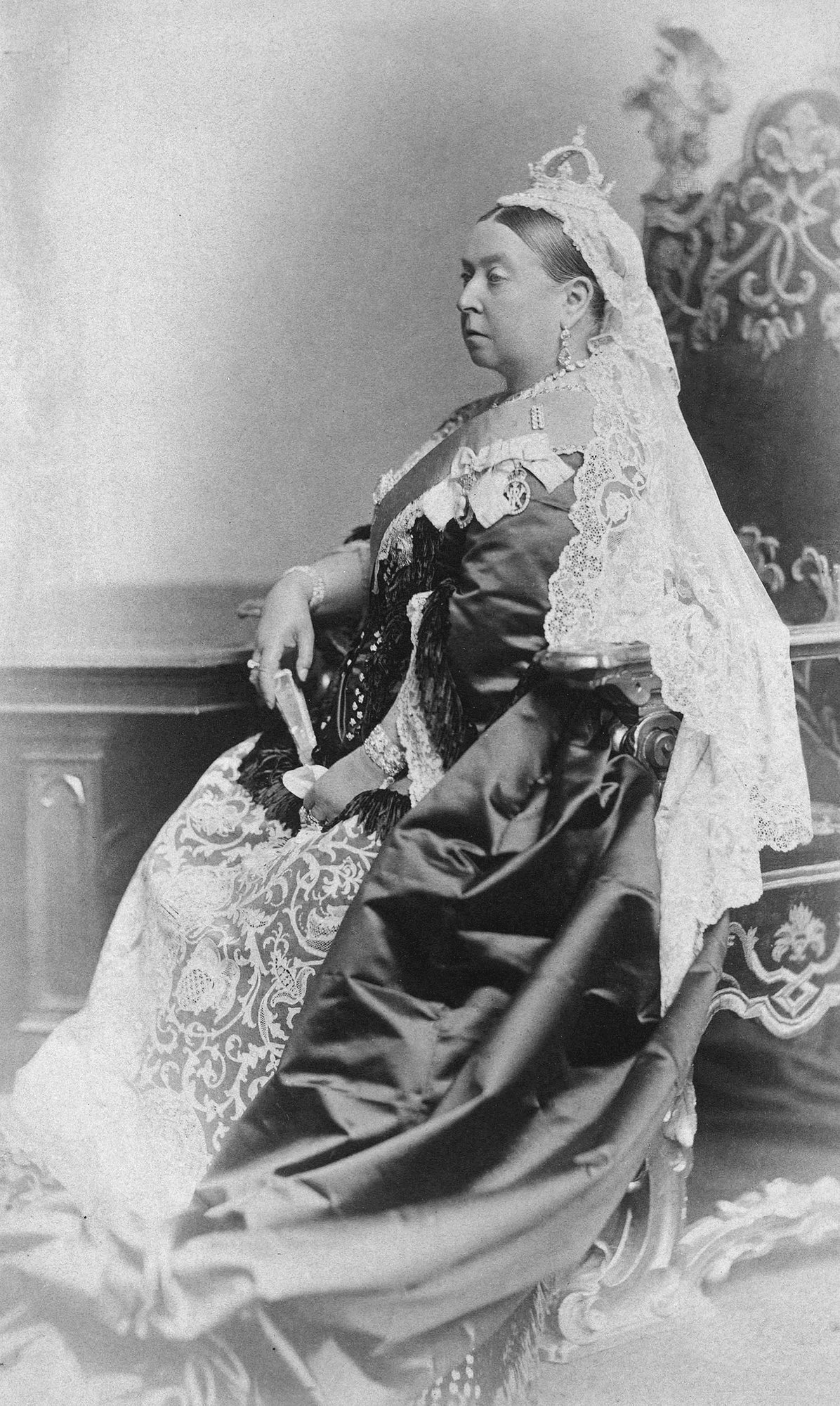 portrait photograph of Queen Victoria dressed for the wedding of the duke and duchess of Albany.